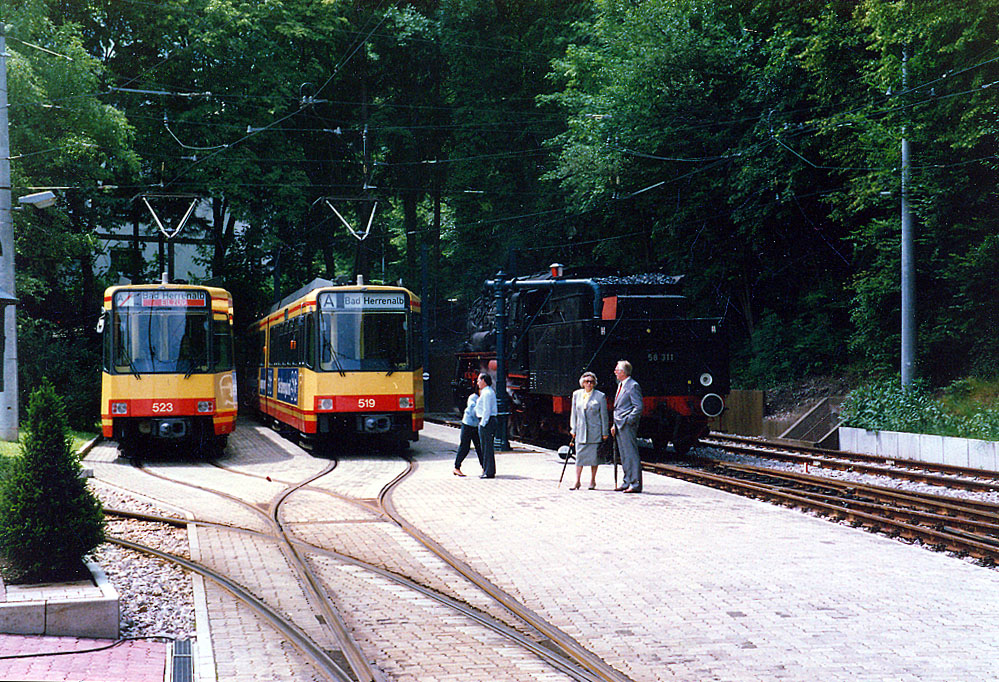 AVG tram train and historic steam locomotive 58 311 in Bad Herrenalb.